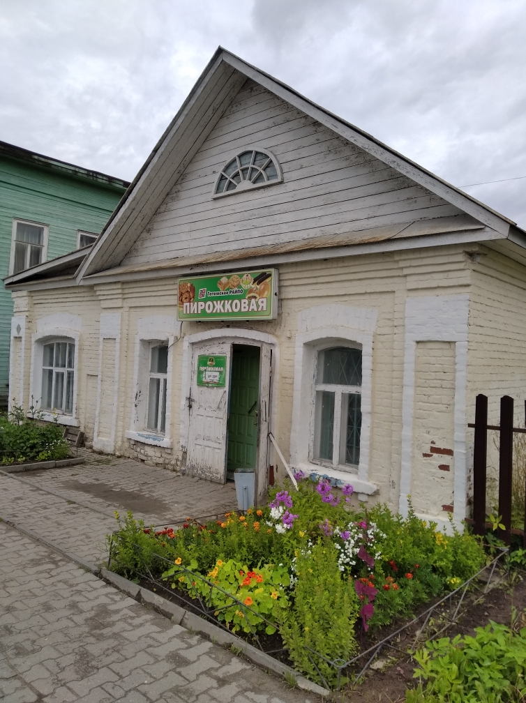 The pie shop